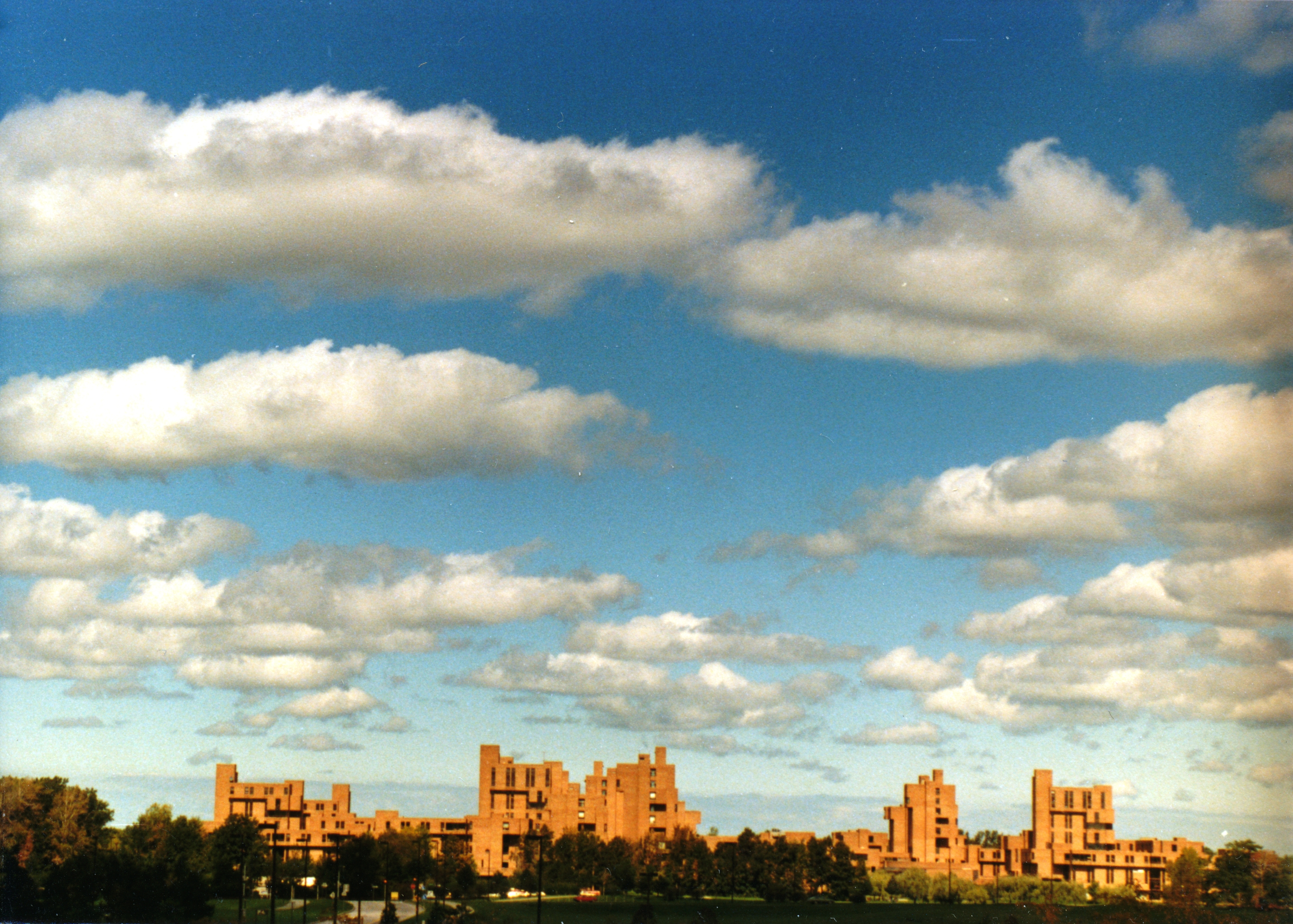 Alternative perspective, Ellicott Complex, University at Buffalo, State University of New York. Photographer: Y. G. Lulat